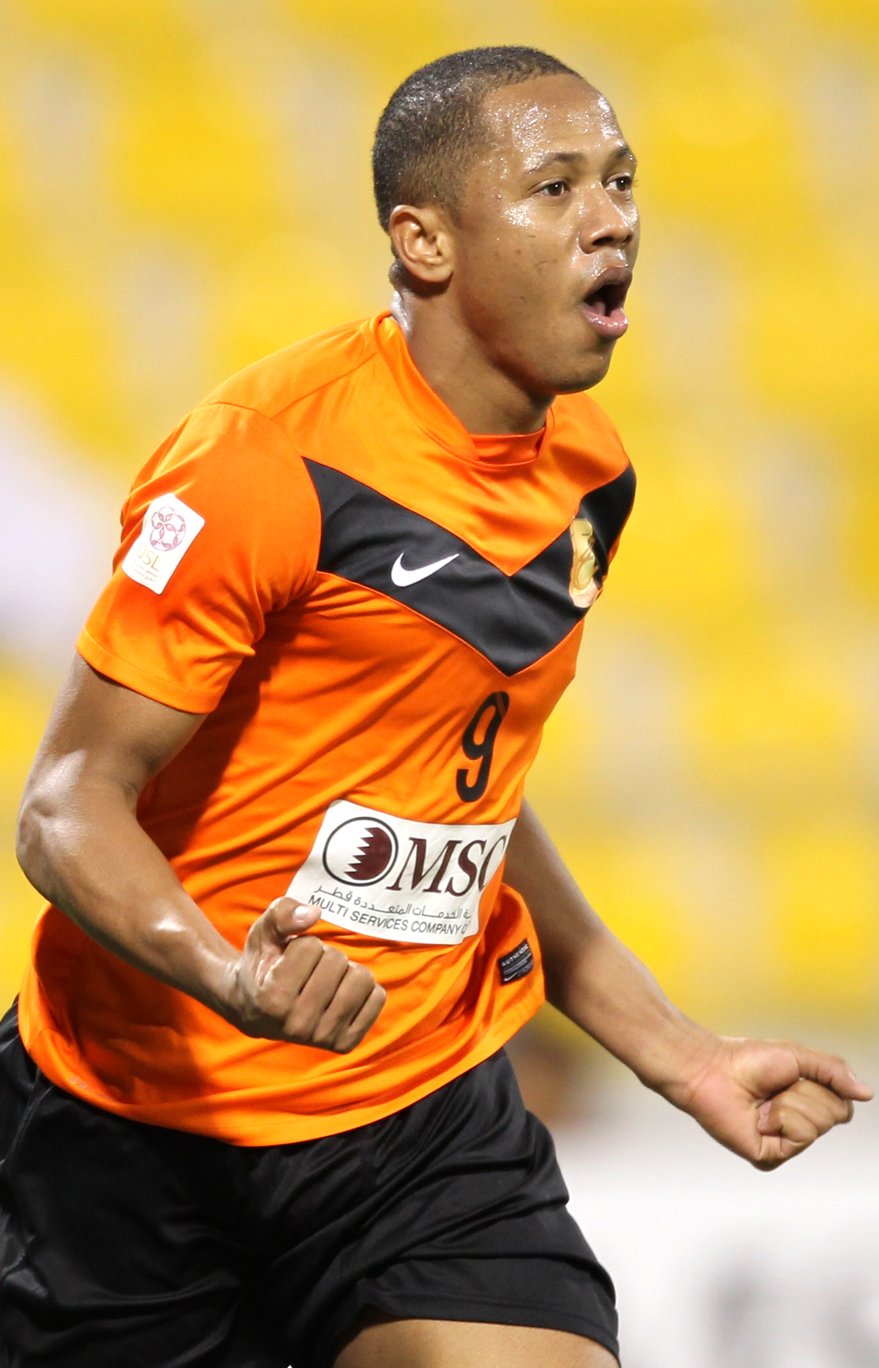 Umm Salal's Brazilian professional Everaldo Pereira exults after scoring during a Qatar Stars League match.